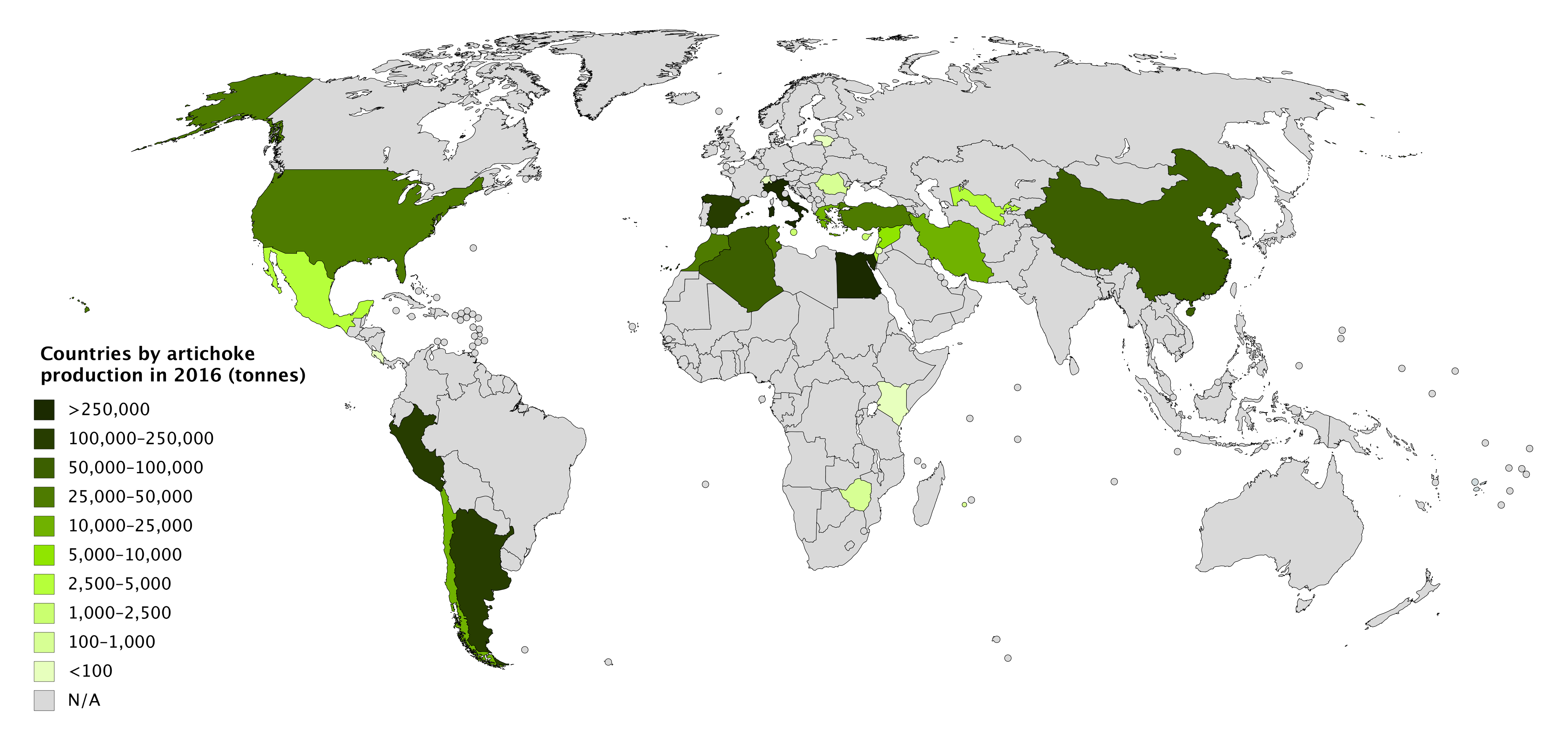 A choropleth map showing countries by artichoke production in tonnes, based on 2016 data from the Food and Agriculture Organization Corporate Statistical Database (FAOSTAT).